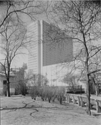 New York Coliseum, Columbus Circle. Exterior from park, framed view through tree